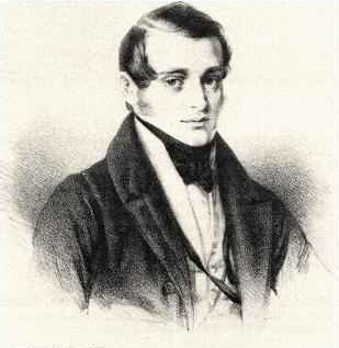 The portrait of composer Norbert Burgmüller (1810—1836)